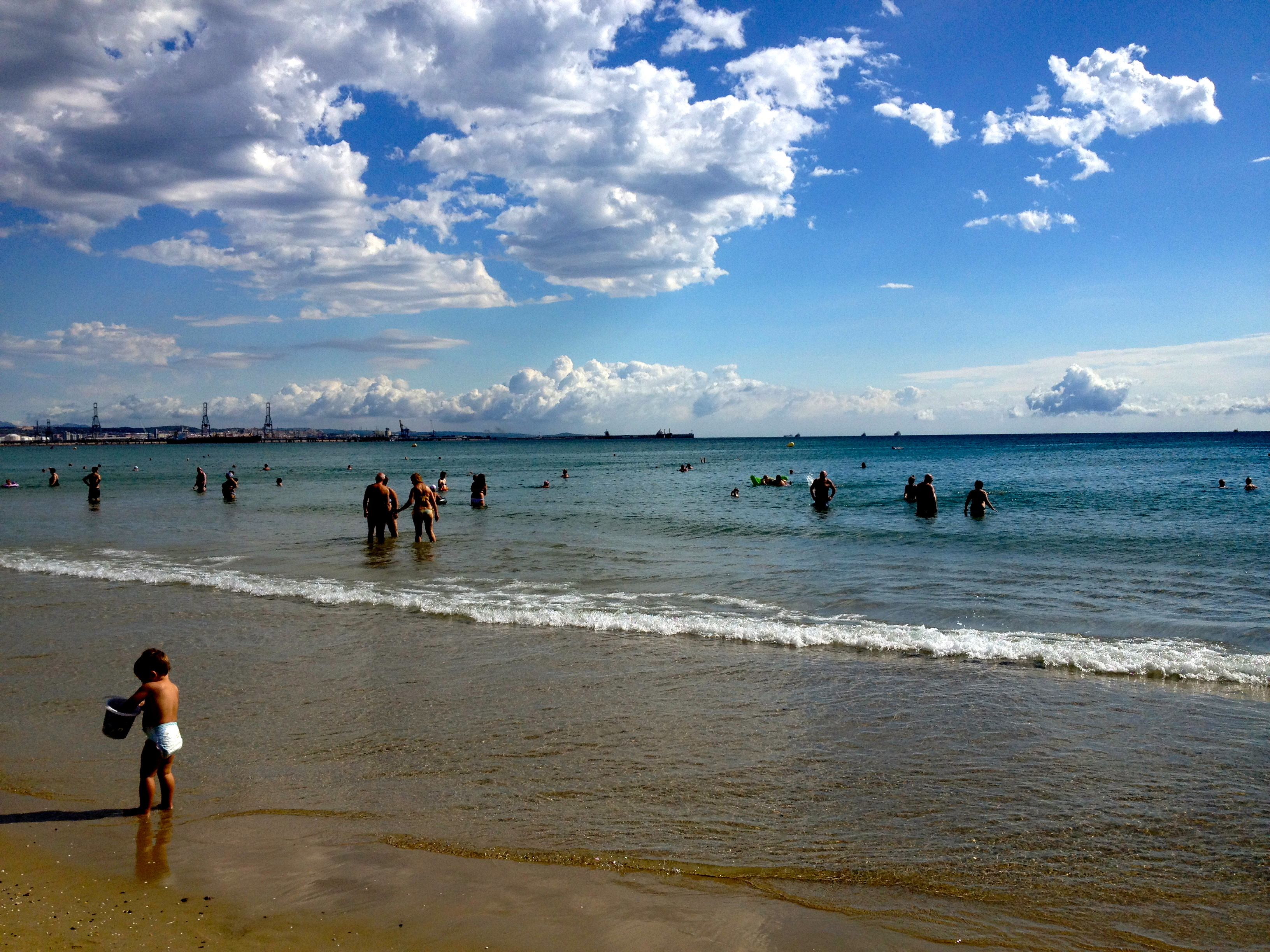 Platja de la PinedaLietuvių: La Pinedos pliažas